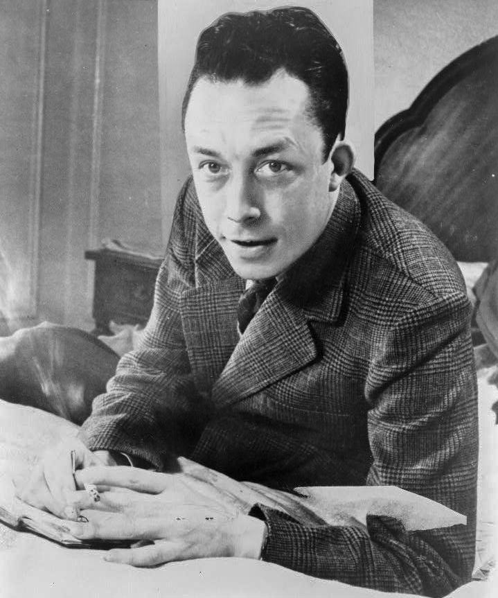 Albert Camus, Nobel prize winner, half-length portrait, seated at desk, facing left, smoking cigarette